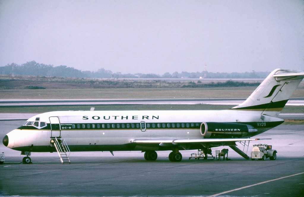 Southern Airways Douglas DC-9-15 N92S at Atlanta (Hartsfield) Airport, Georgia, USA